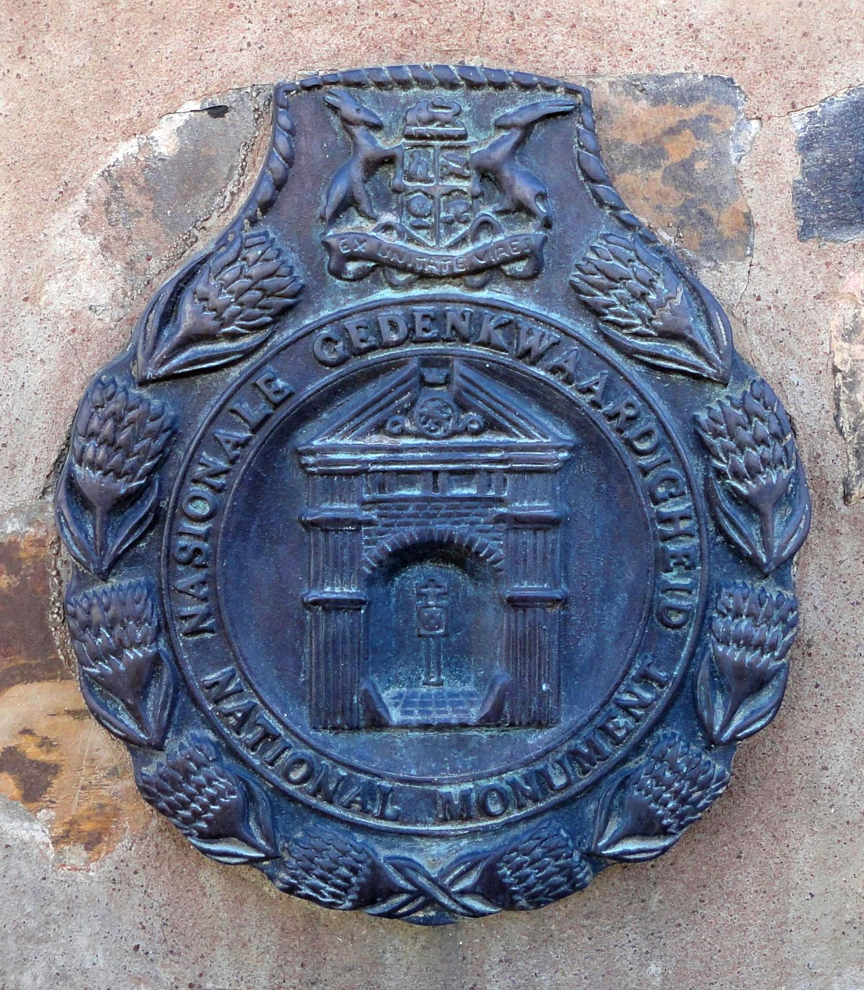 Memorial plaque of a National heritage site in South Africa, in this case at the Voortrekker House in Pietermaritzburg